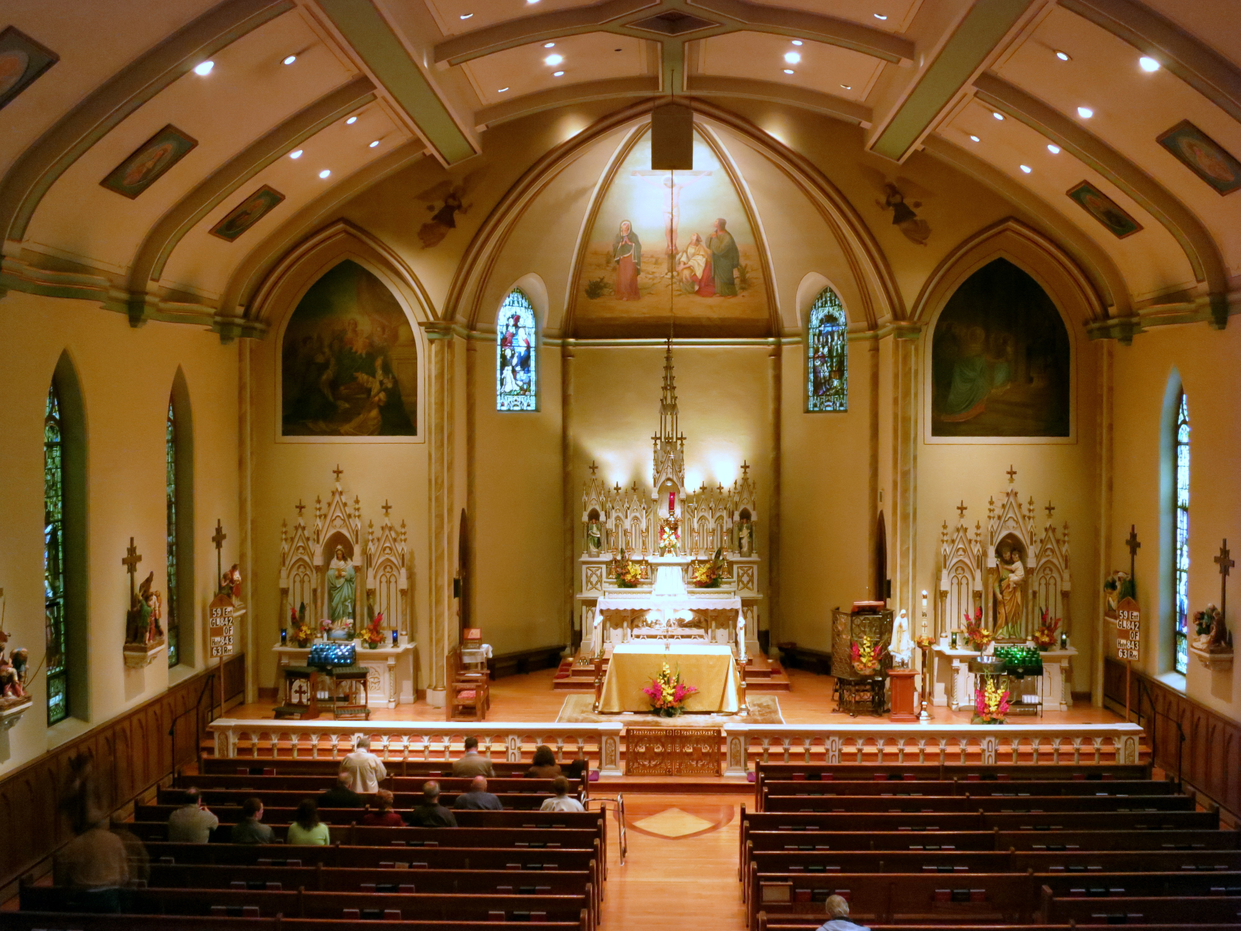 Saint Patrick Catholic Church (Columbus, Ohio) - view from the loft 2